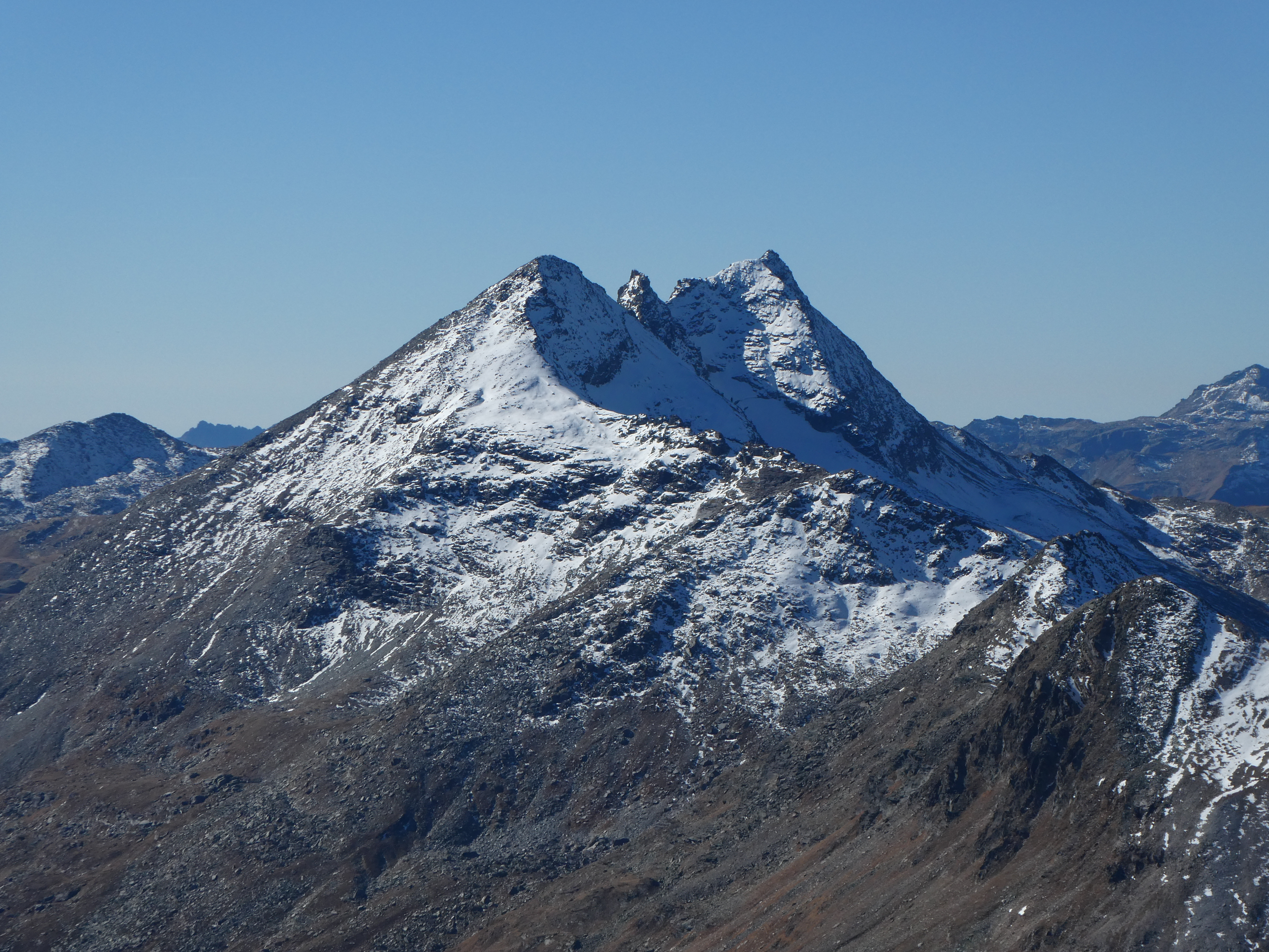 Piz della Palu and Piz Timun/Pizzo d'Emet, picture taken from Piz Grisch (Ferrera, Grison, Switzerland)